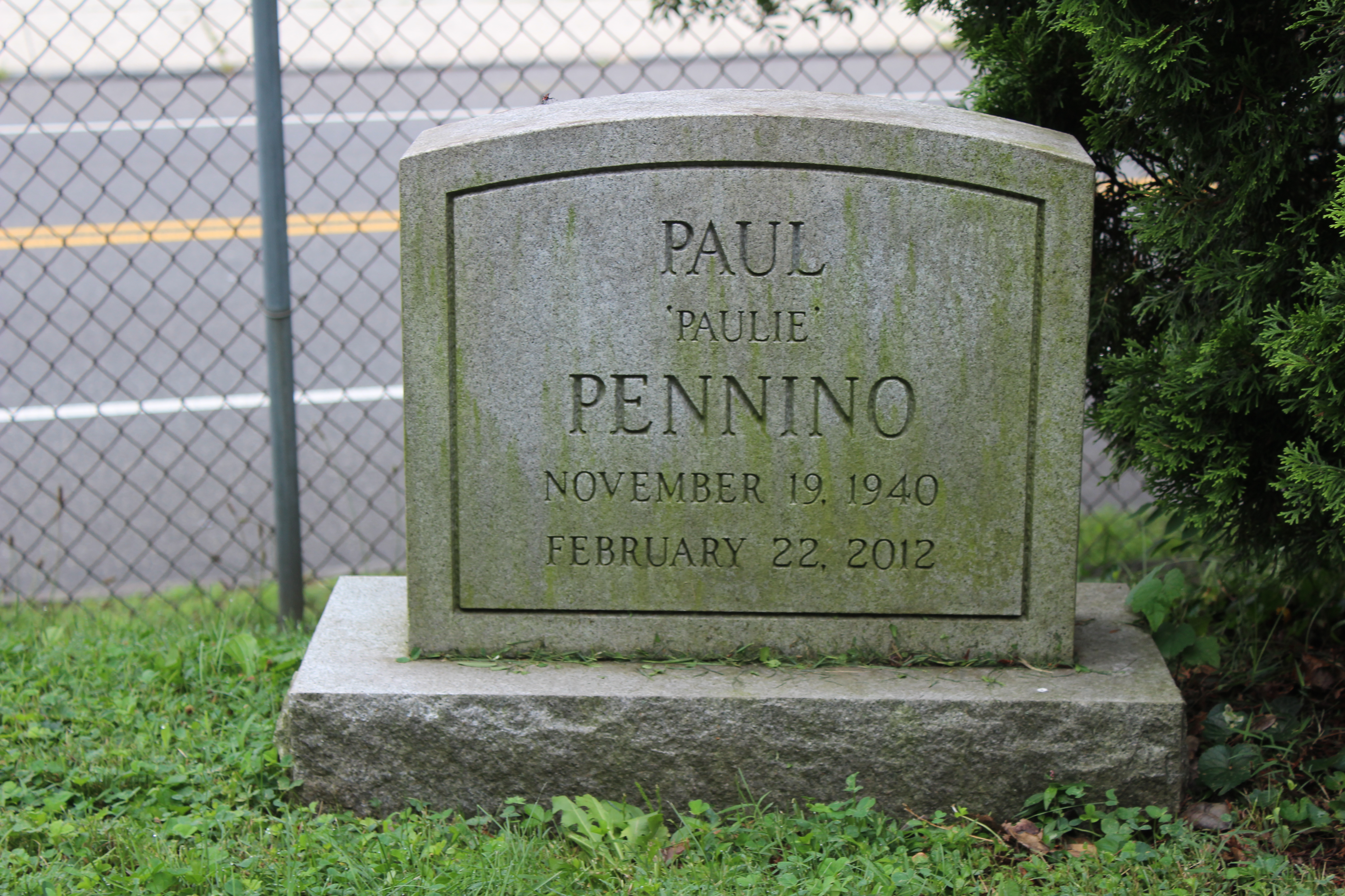 Paulie Pennino headstone in Laurel Hill Cemetery. Photo taken July 2020.